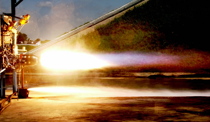 Kestrel (rocket engine) test fire, Space Exploration Technologies (SpaceX). (See talk page for GFDL permission notes and SpaceX contact information)